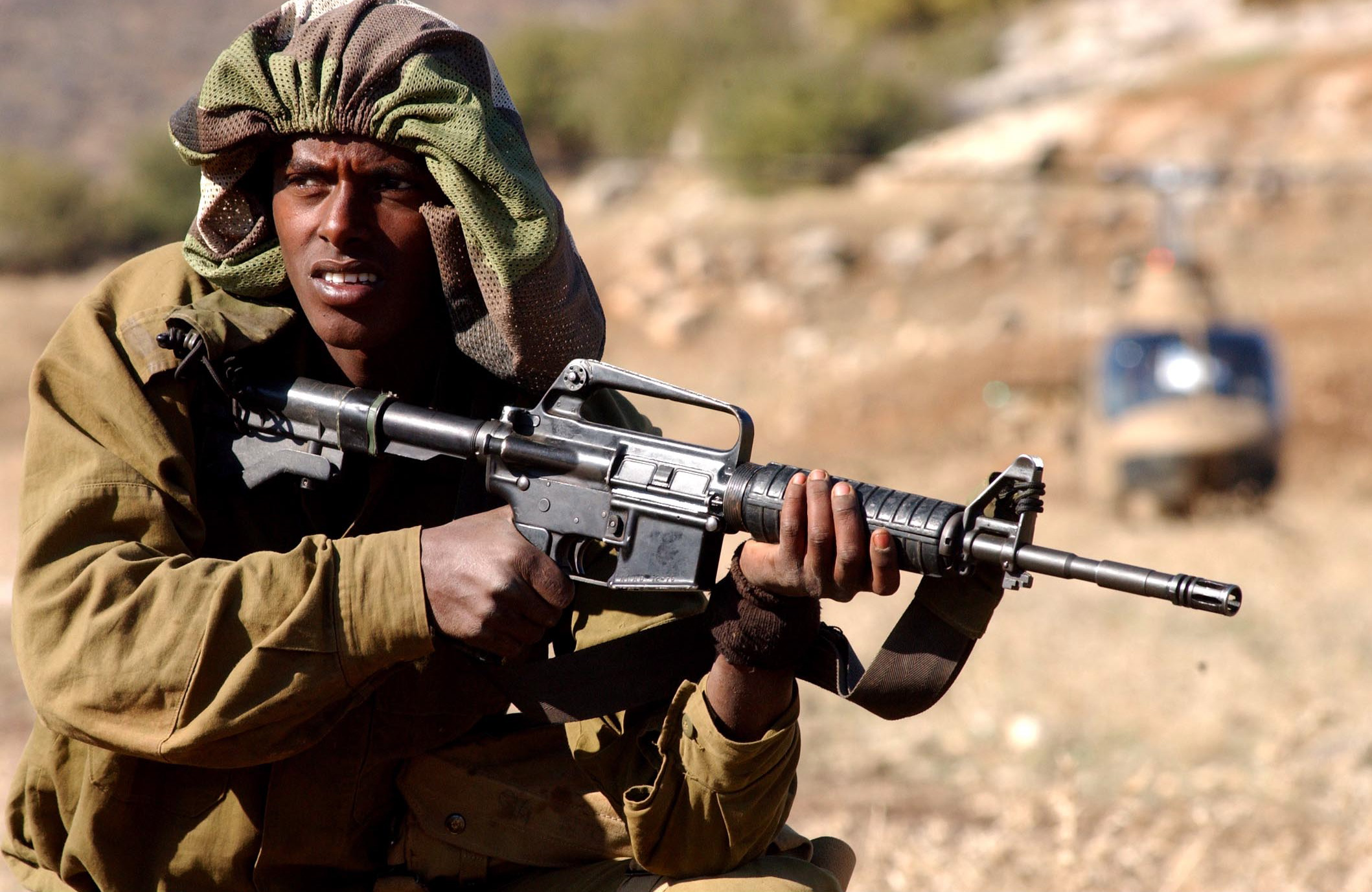 Golani Brigade commandos drill in the north of Israel. The soldiers practiced storming an area, and operating under bio-chemical attacks. The drill also included cooperation with the Israeli Air Force as the soldiers had to protect a helicopter that was to land in an open field.